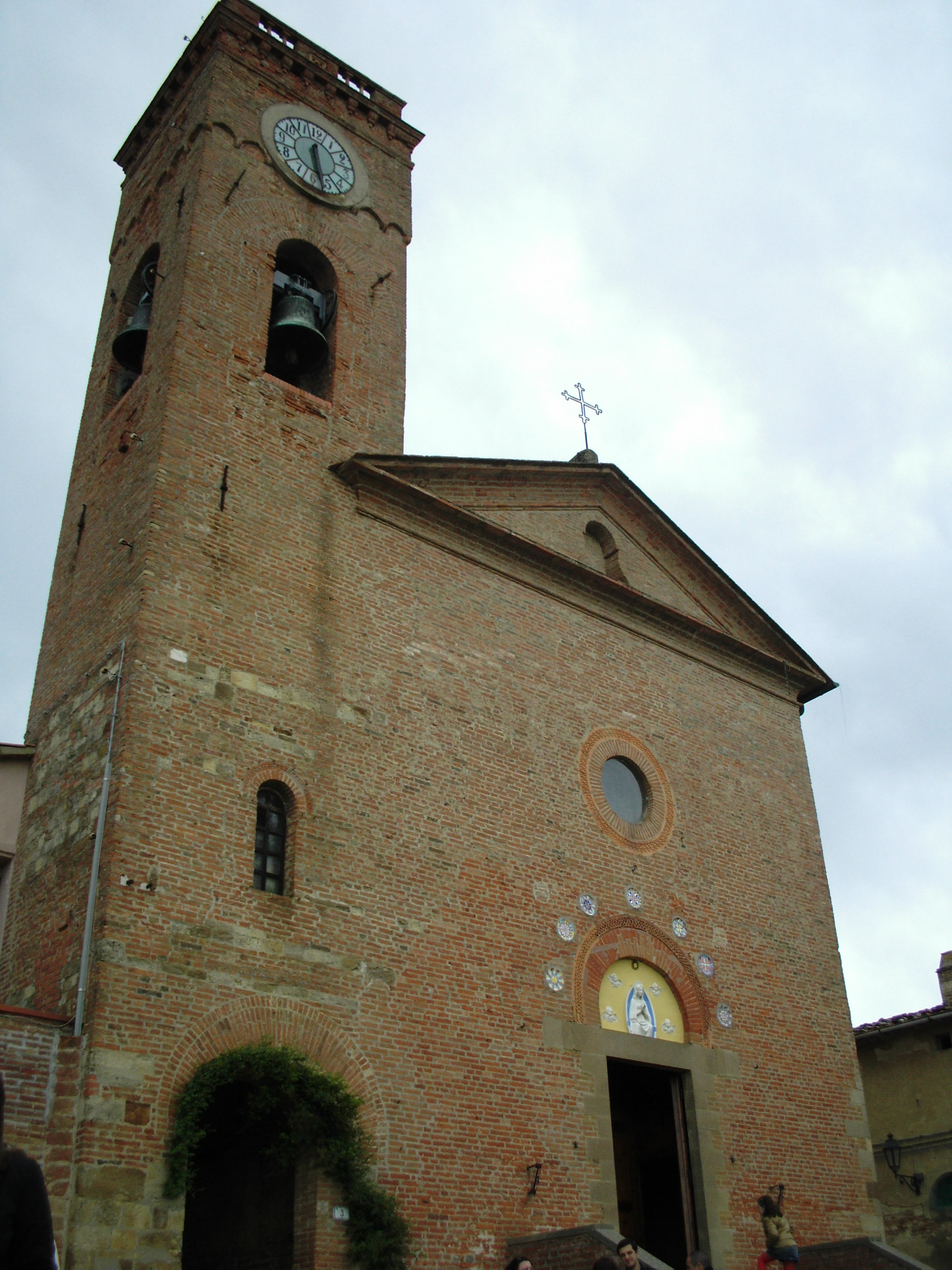 Church of Santa Maria Assunta (Montefoscoli)